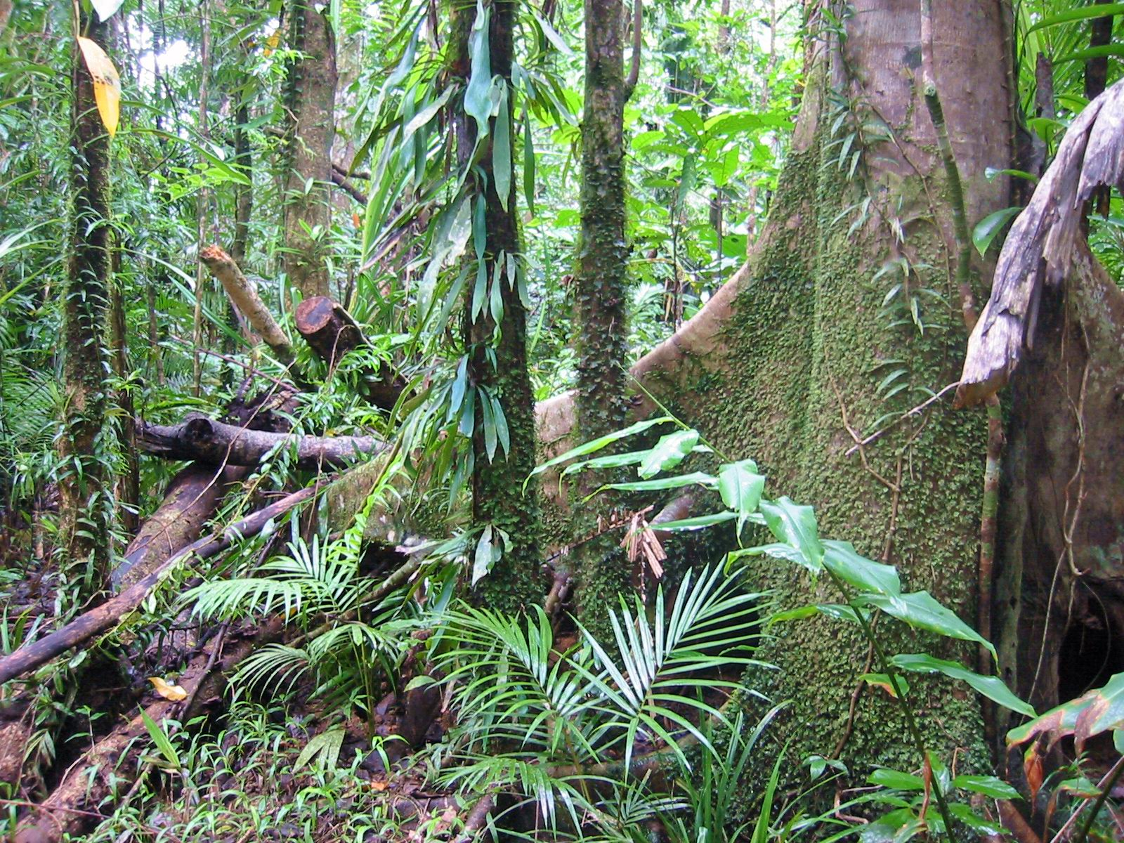 Rain Forest near Daintree, Queensland, Australia